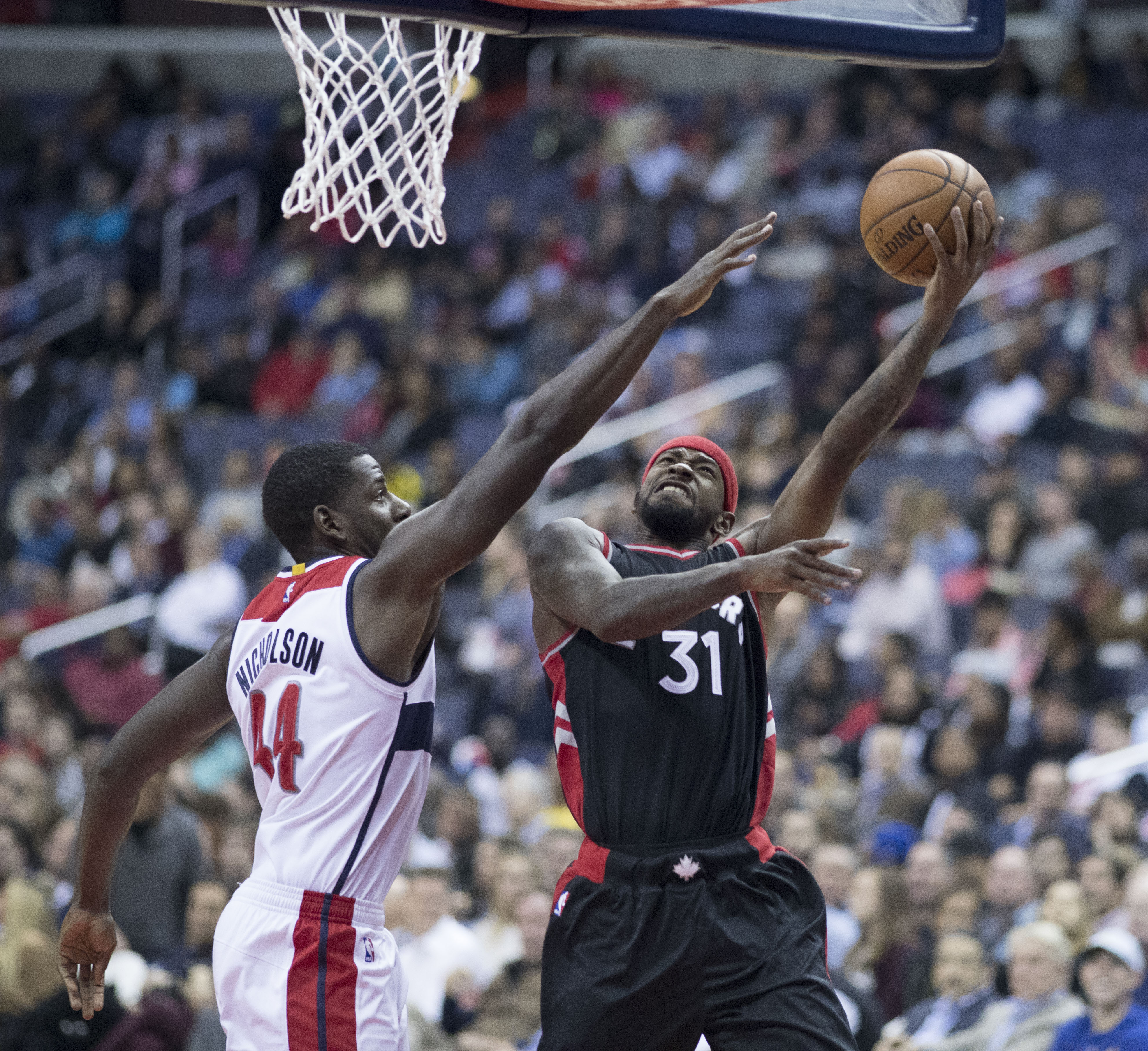 Terrance Ross of the Toronto Raptors is defended by Andrew Nicholson of the Washington Wizards during a game on November 2, 2016 at Verizon Center in Washington, DC.